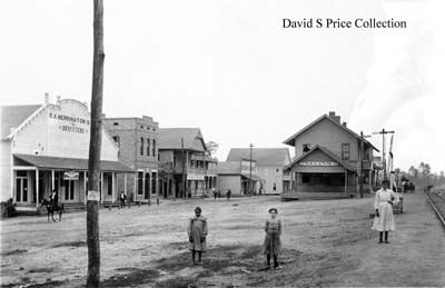 Wiggins, Mississippi business district and G&SIRR depot.